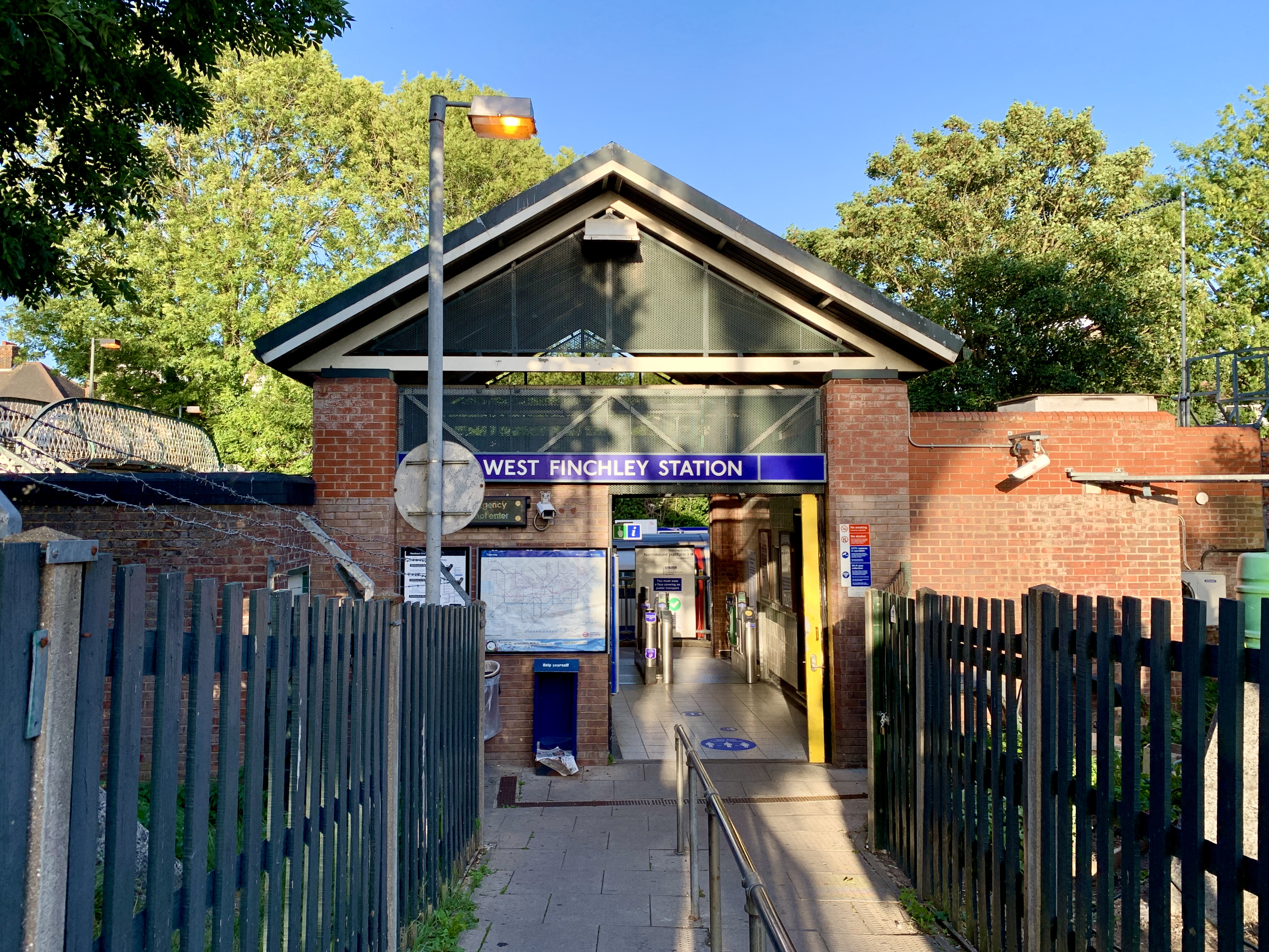 Station building of West Finchley tube station. Taken during my Northern Line Tube Walk.